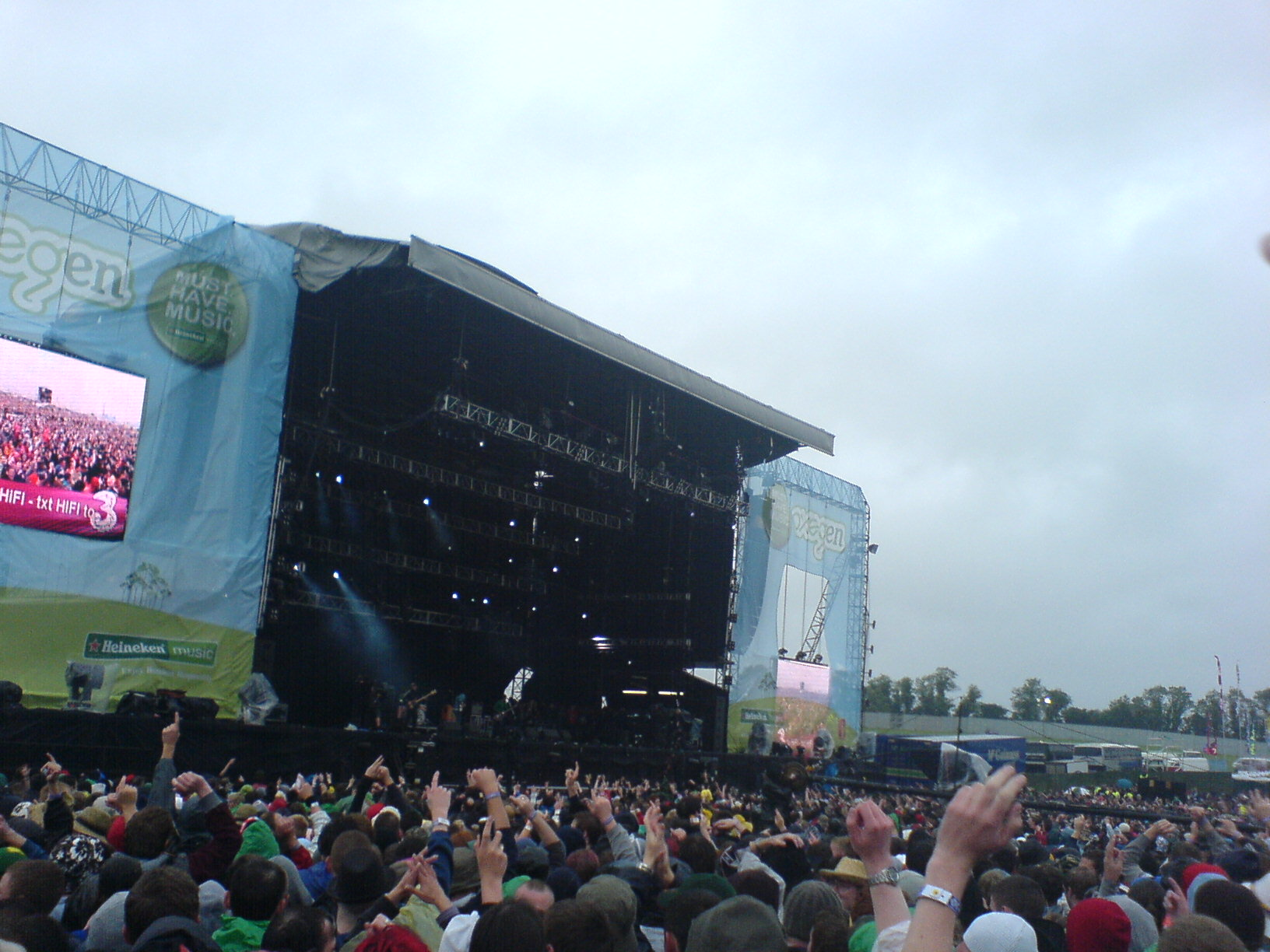 Photo taken by me of the main stage at Oxegen 2006